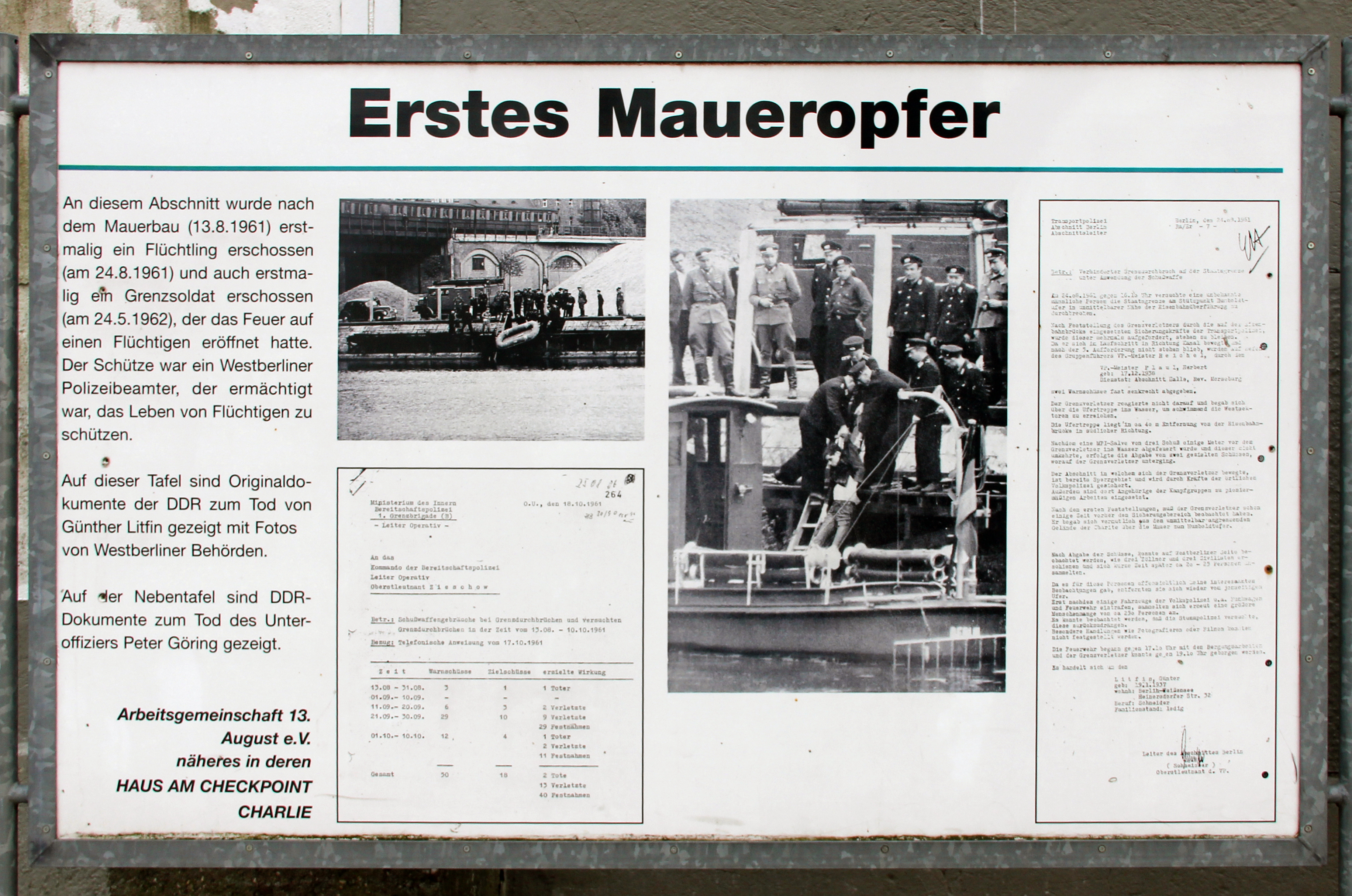 Memorial plaque, Günter Litfin, Scharnhorststraße 32, Berlin-Mitte, Deutschland